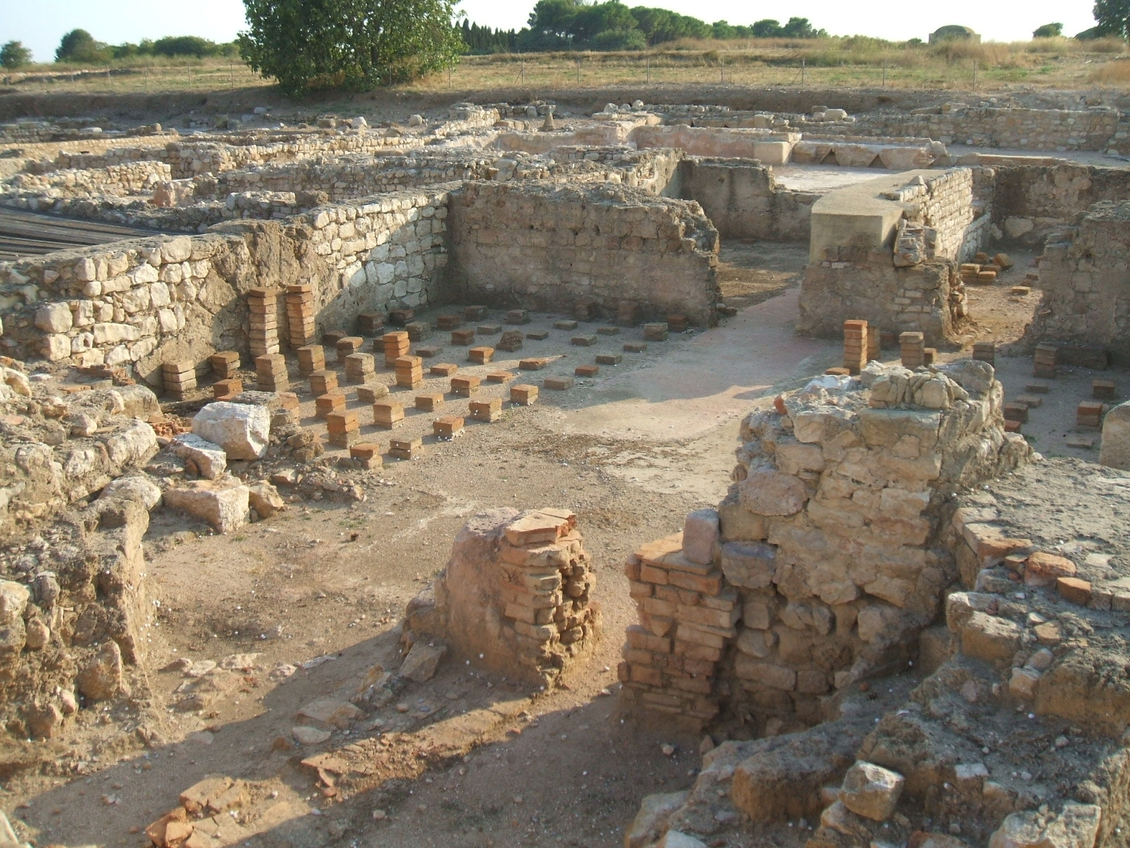 Empuries Archaeological Site (Catalunya, Spain) : Roman Town ; Domus 1 : The Baths.